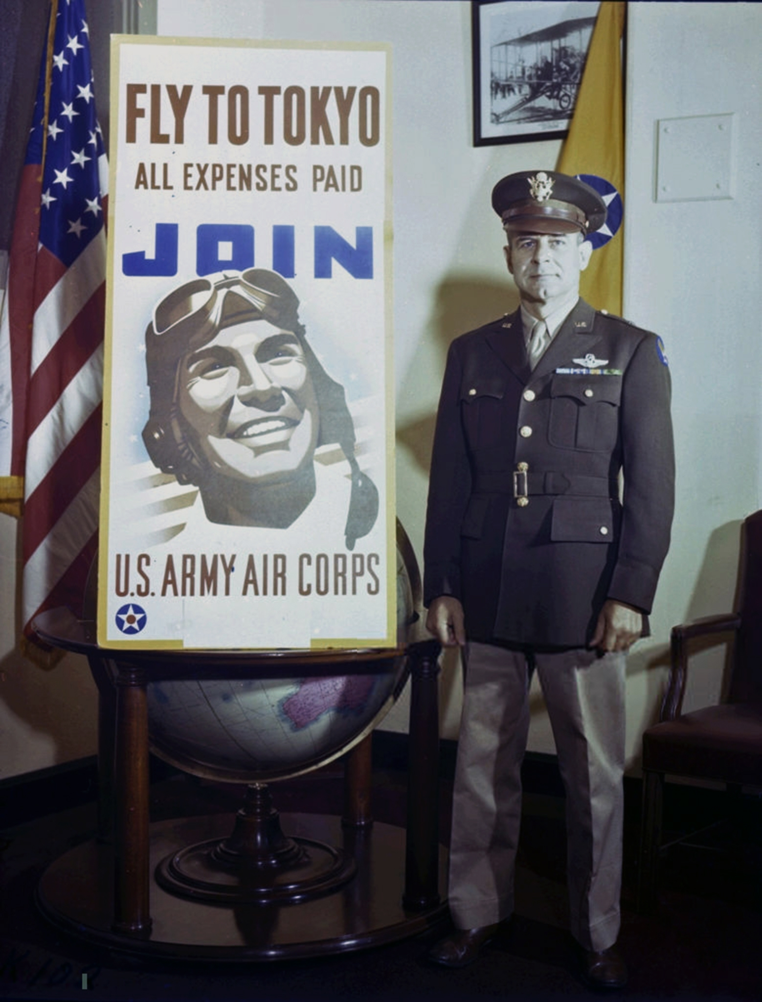 General Jimmy Doolittle with poster